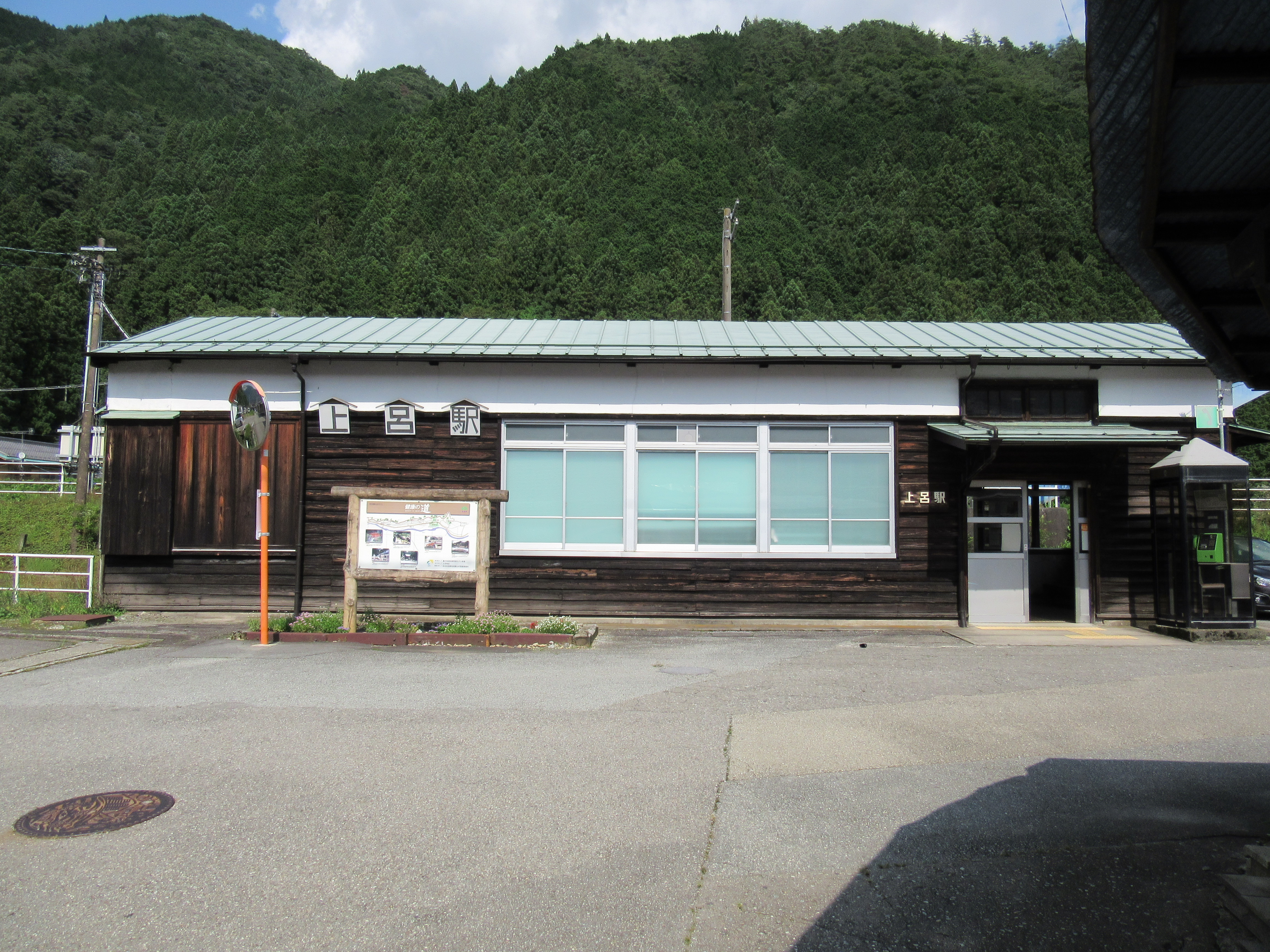 Jōro Station on the JR Central Takayama Main Line in Gero, Gifu. Canon PowerShot SX600 HS